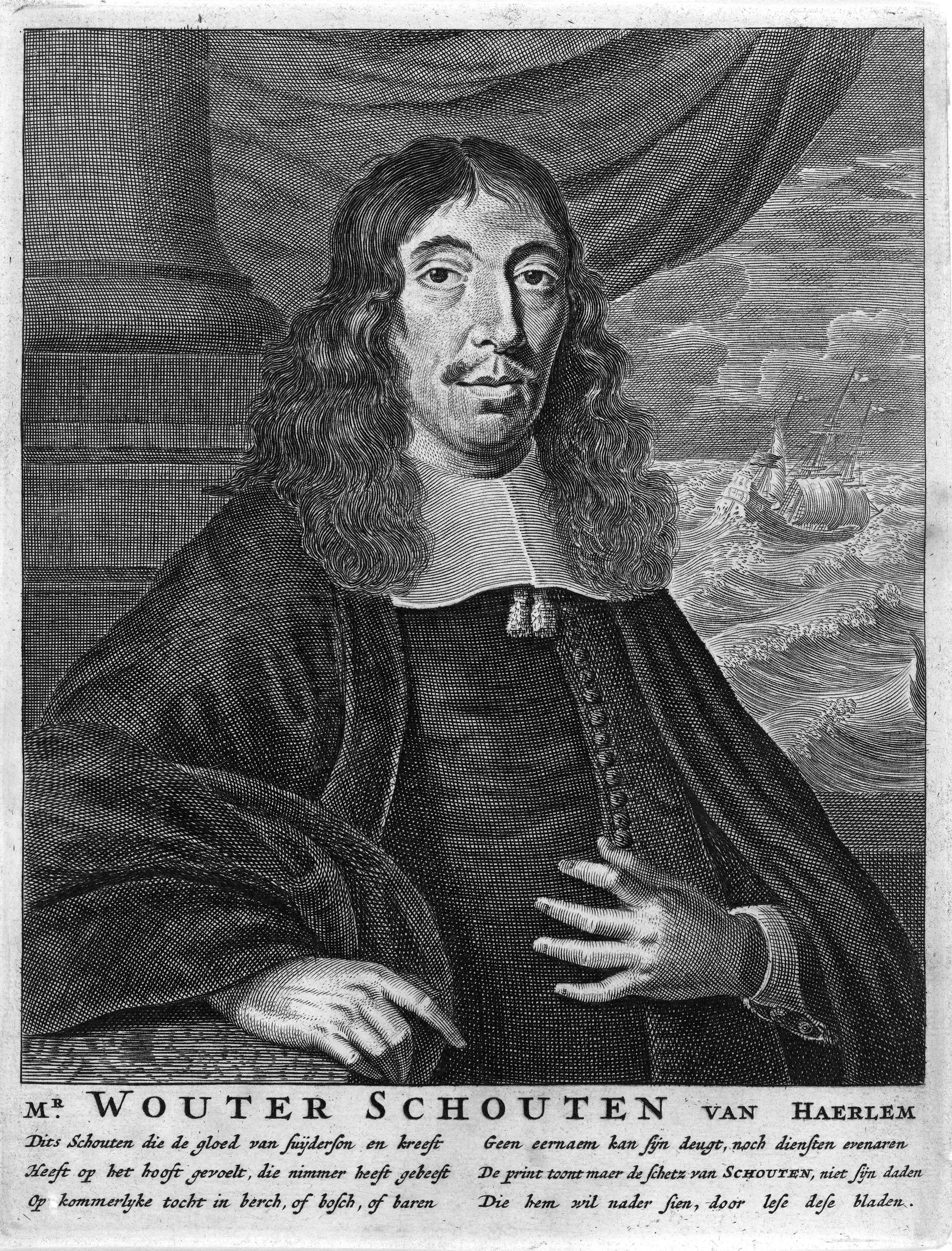 Wouters Schouten from Haarlem (1638-1704) Chefsurgeon of VOC, Writer; From his book "Oost-Indische Voyagie" Van Wouter Schouten Amsterdam 1676